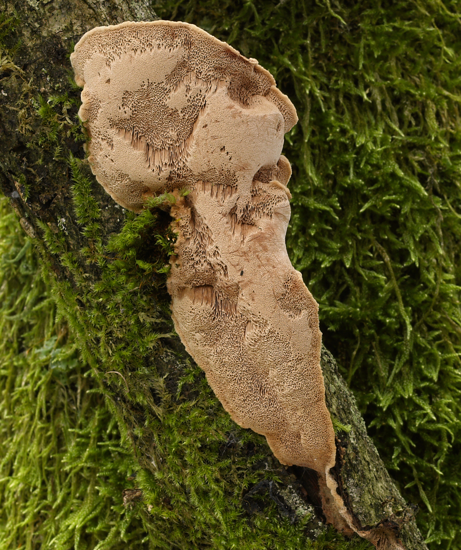 Cinnamon Bracket (Hapalopilus nidulans) on a thin, dead, but standig stem of an oak